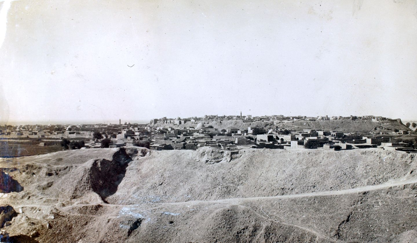 The old Kirkuk.